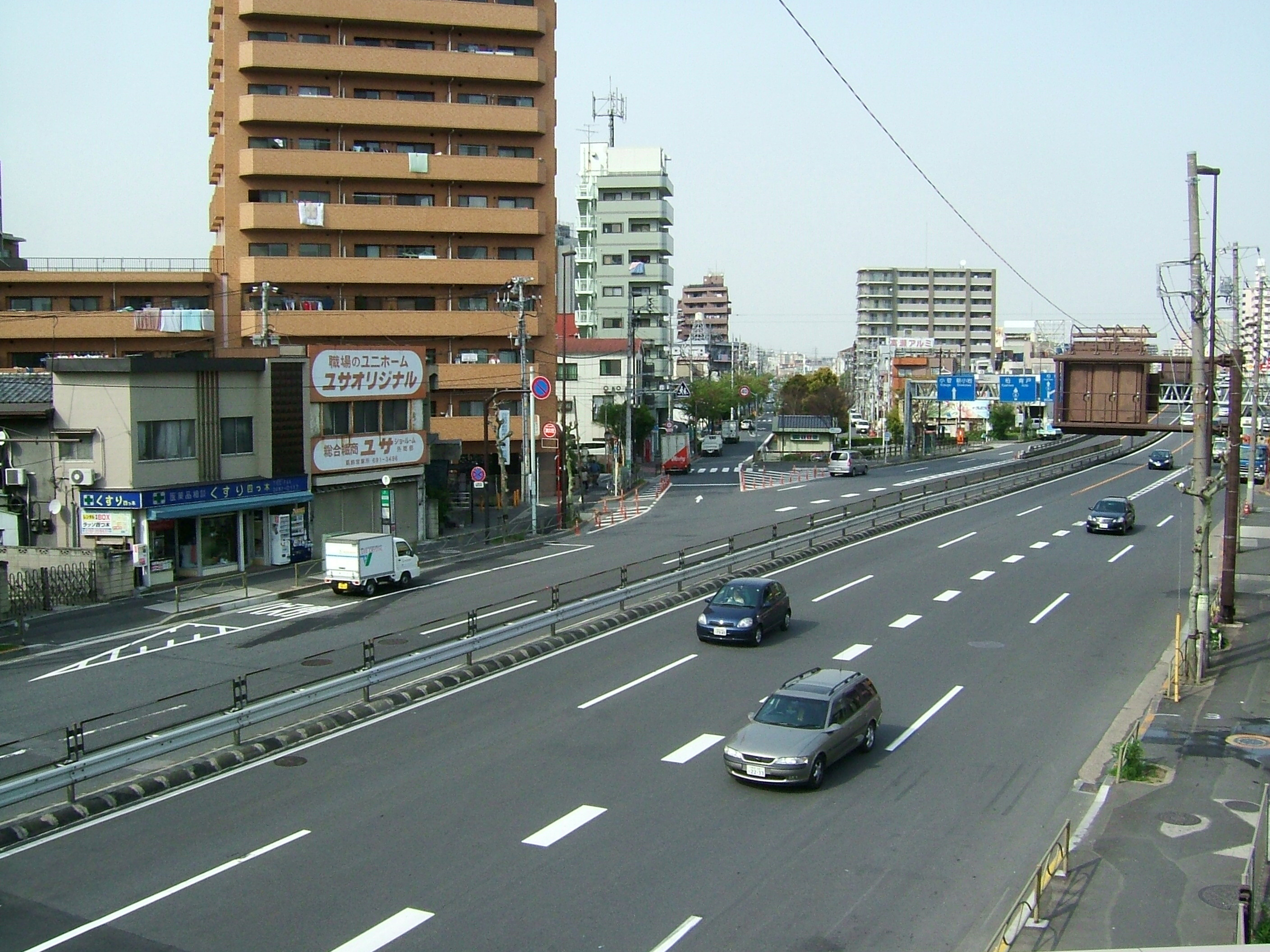 Route 6 (Katsushika, Tokyo, Japan)